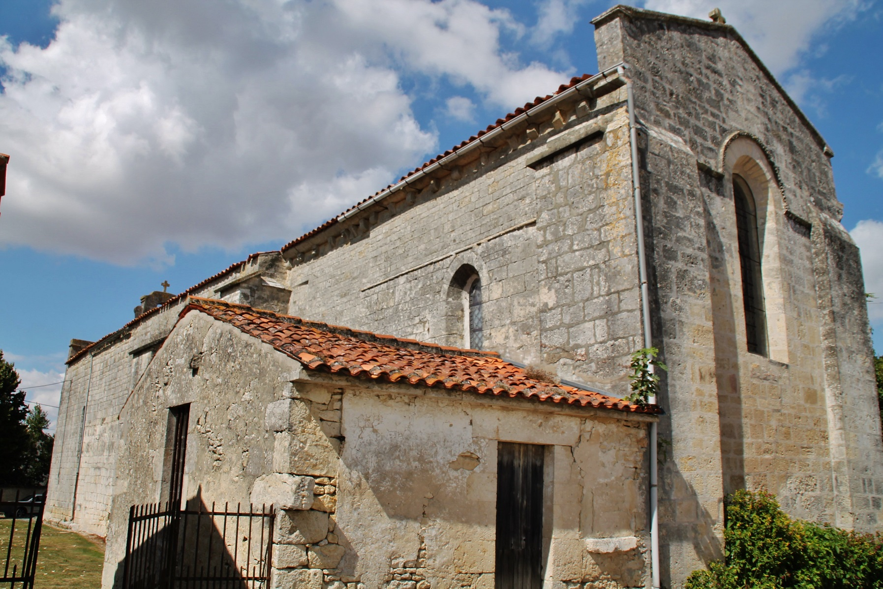 église St Pierre